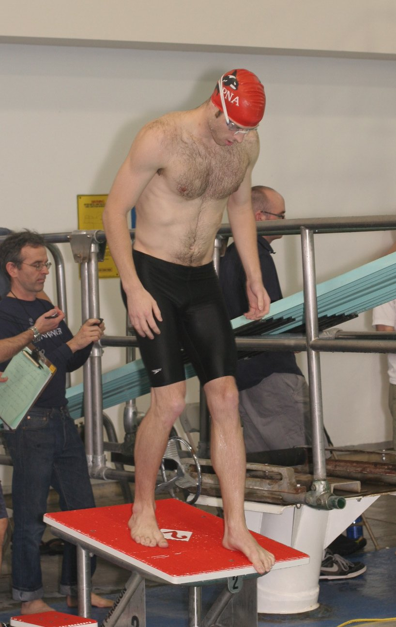 March 2008 Orca Swim Meet, at the Helene Madison Pool in Seattle, Washington